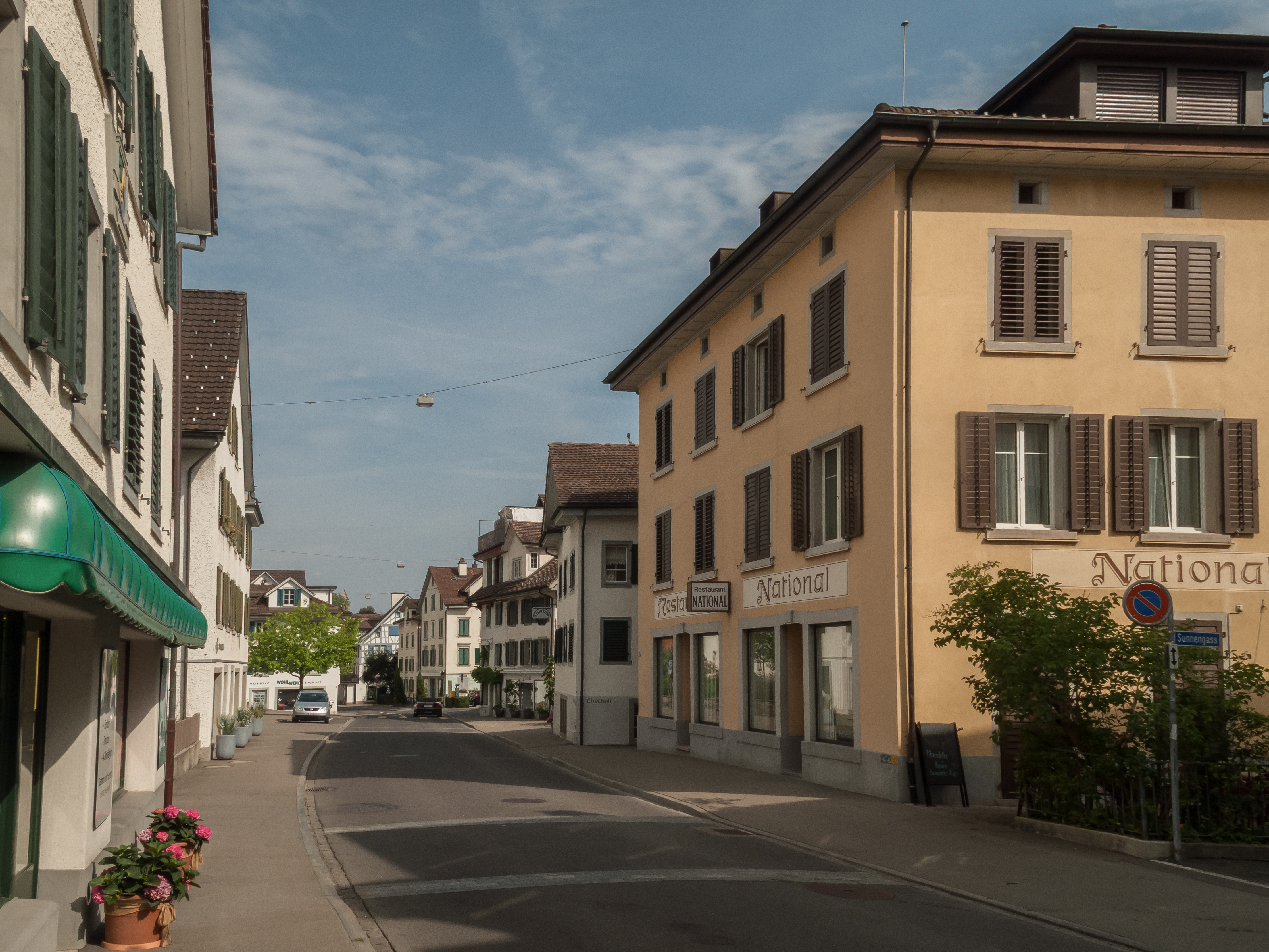 Richterswil, view to a street: die Dorfstrasse